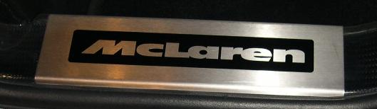 1996 McLaren F1 Closeup of McLaren logo sill plate From the Ralph Lauren collection on display at the Boston Museum of Fine Arts. Photo taken in 2005. Source: Photo by User:Sfoskett